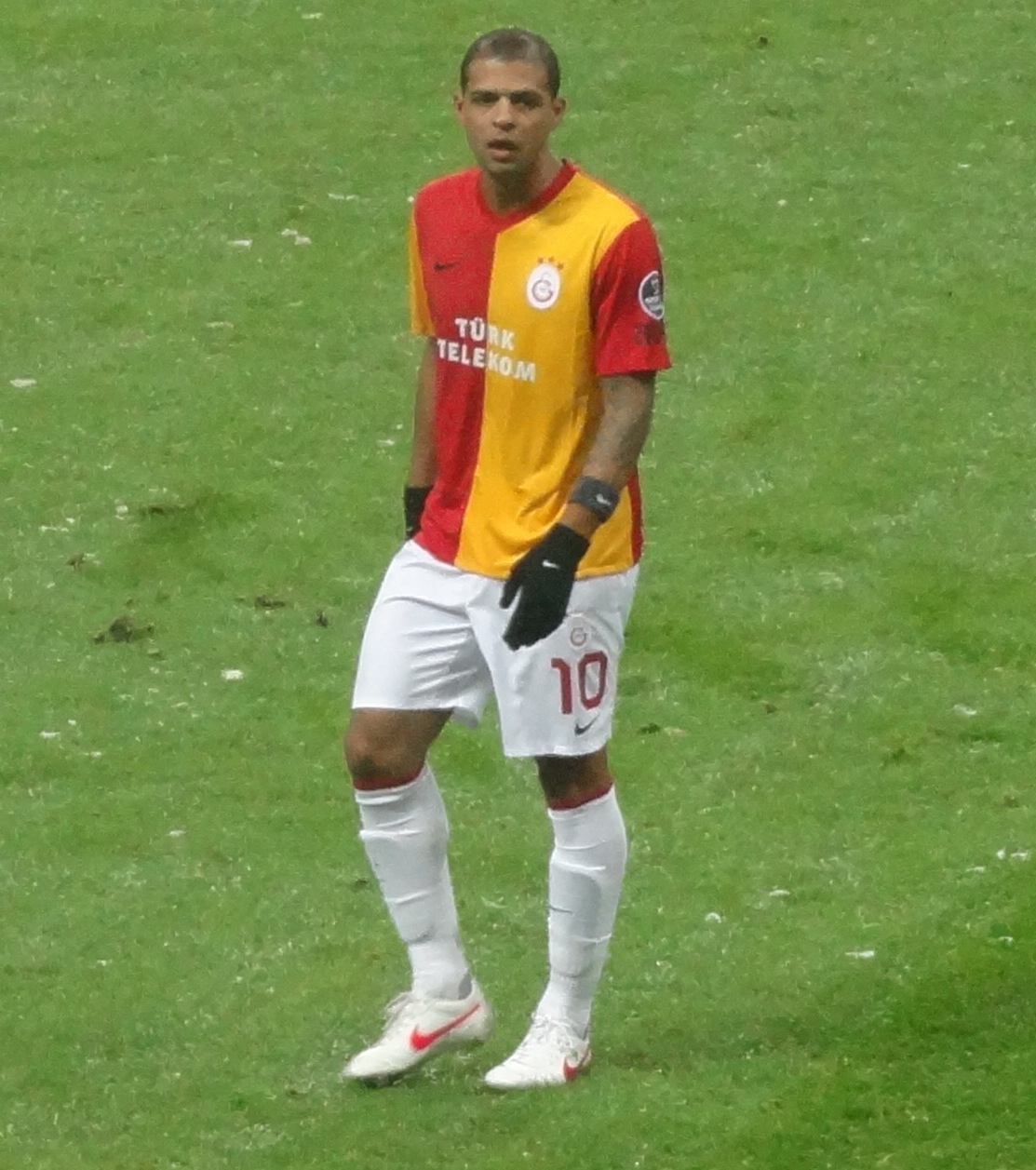 melo playing for galatasaray against karabük